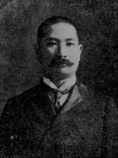 Mr. Yahei Yoshida, professor of the Tokyo Higher Normal School.